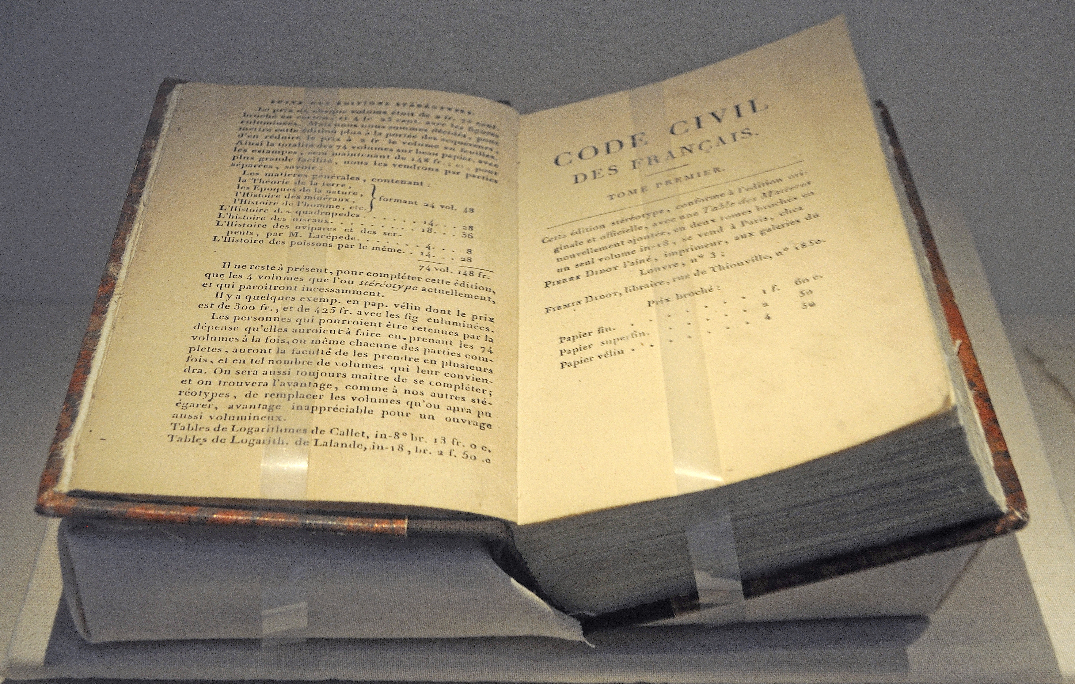 Picture taken in Speyer. Historisches Museum der Pfalz: Napoleonic code.